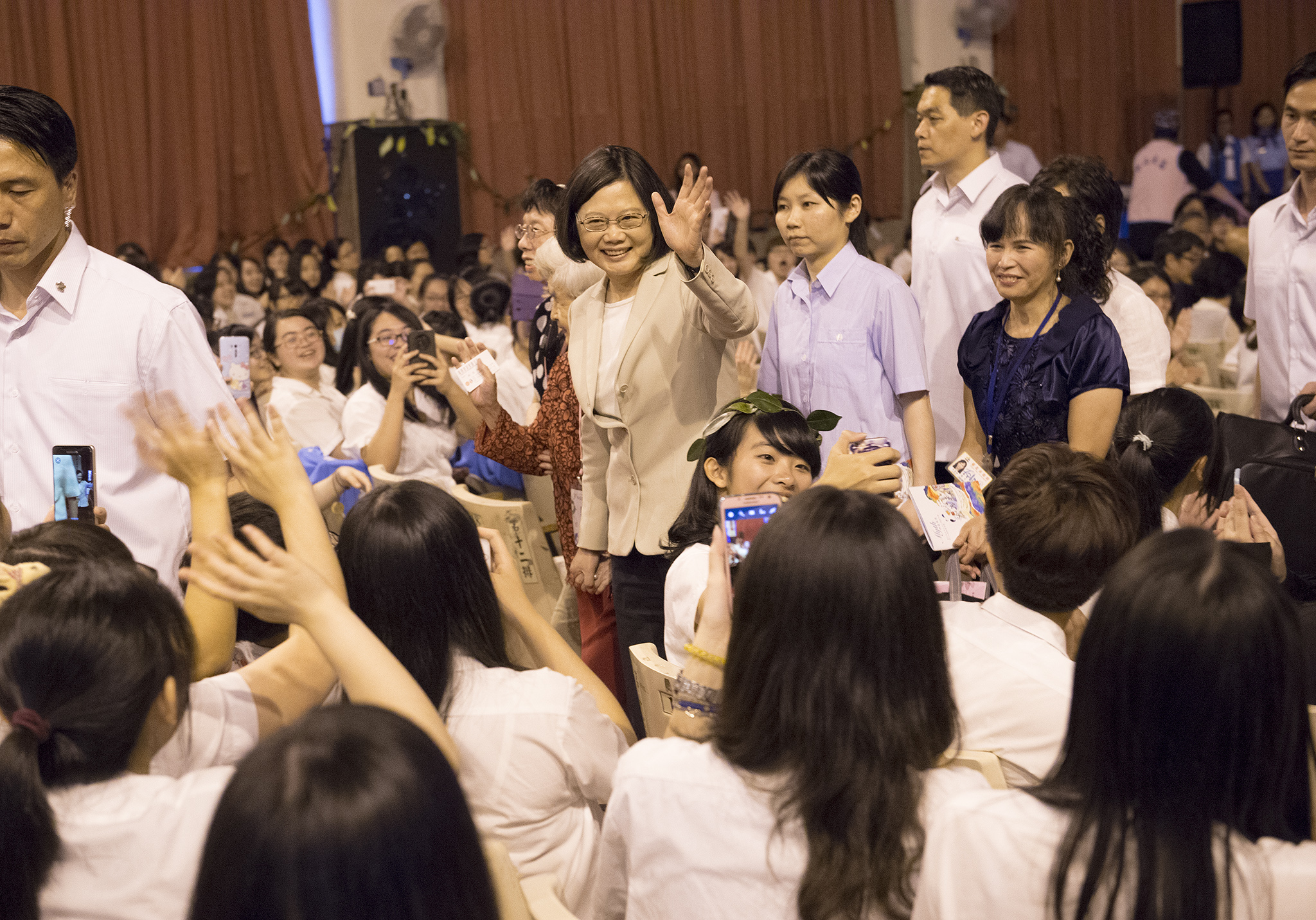 President Tsai attends the commencement of her alma mater, the Taipei Municipal Zhong Shan Girls High School.